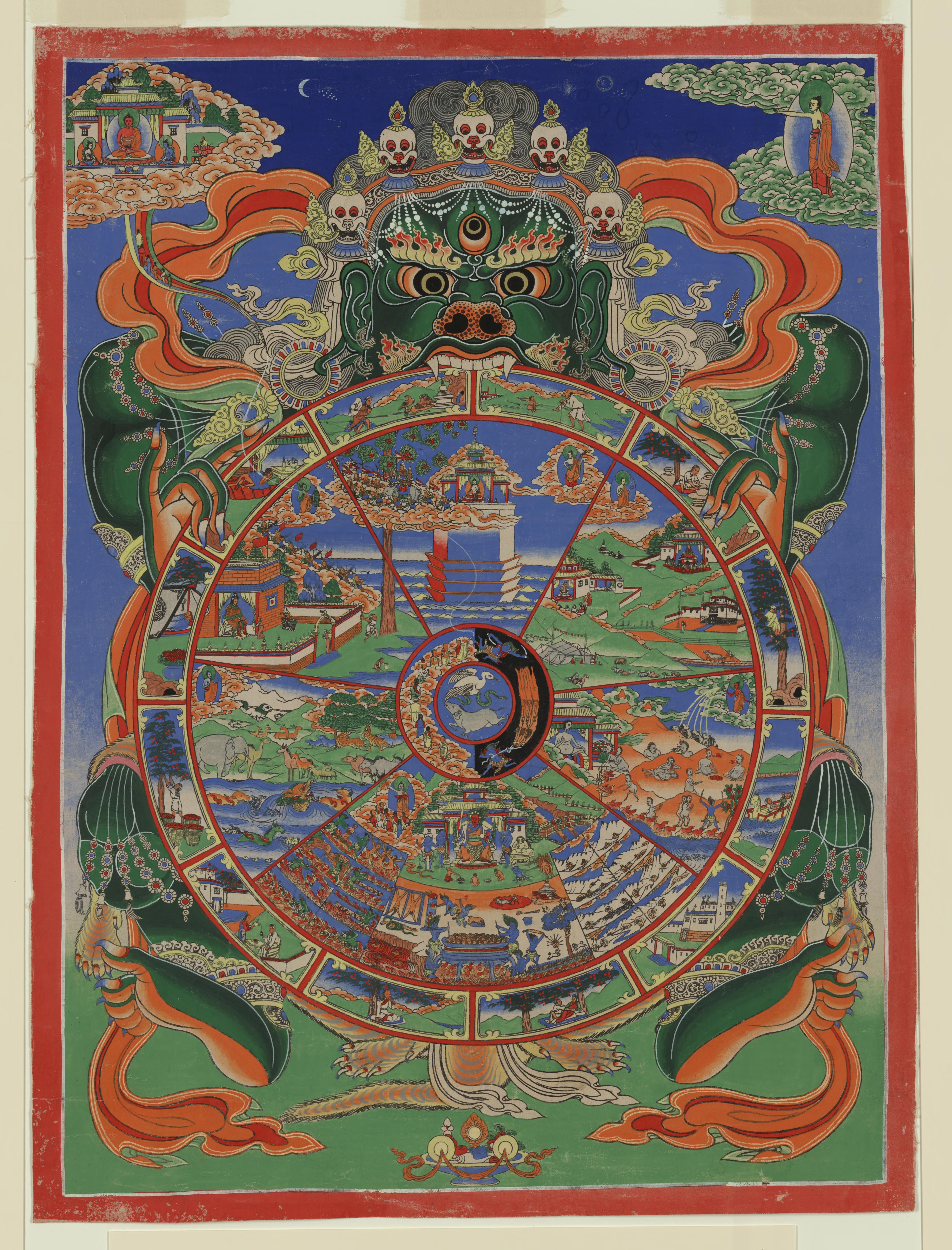 The Bhavacakra (Sanskrit; Devanagari: भवचक्र; Pali: bhavacakka) or Wheel of Becoming is a symbolic representation of continuous existence proces in the form of a circle, used primarily in Tibetan Buddhism.